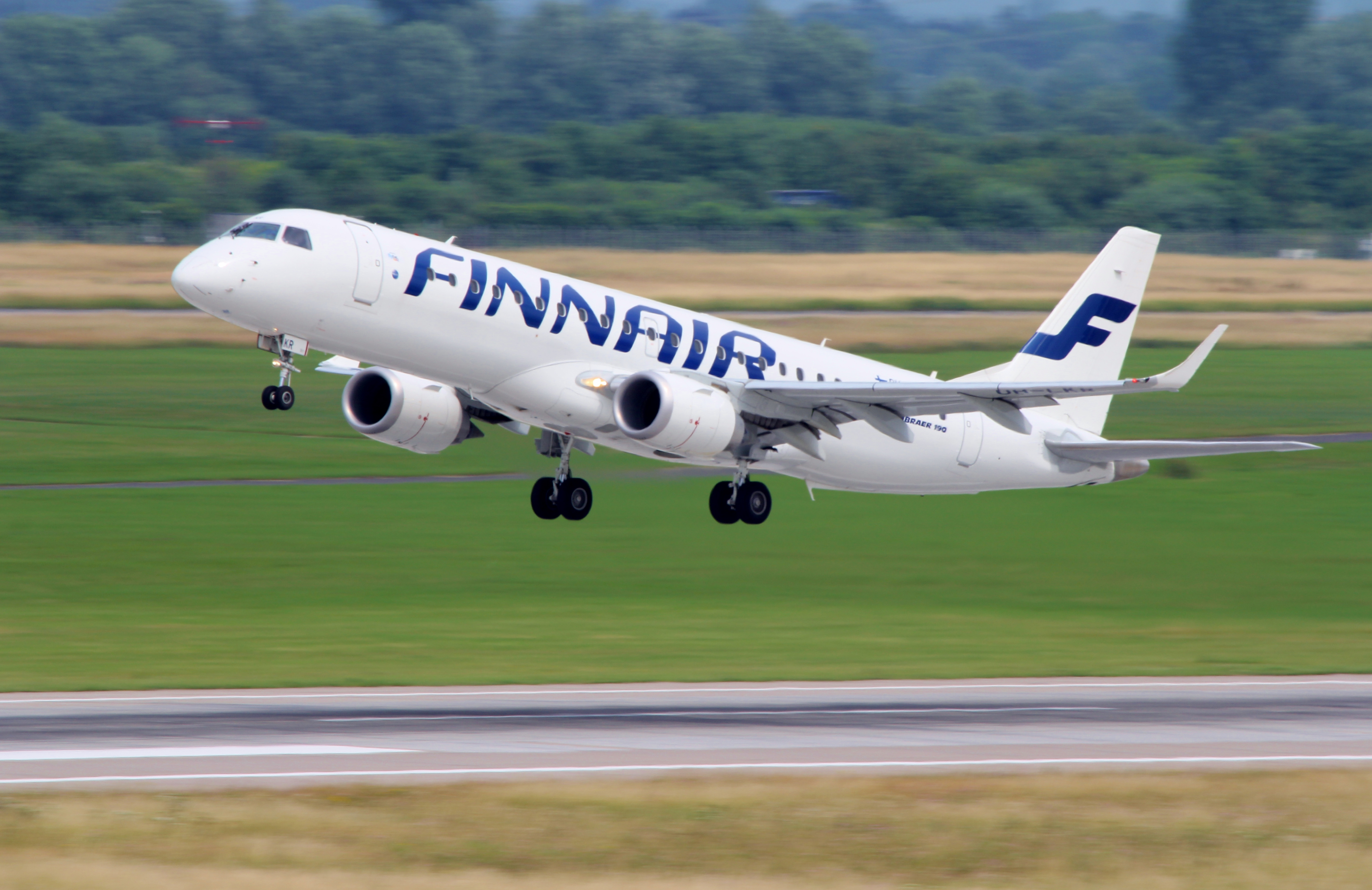 An Embraer ERJ-190-100-LR aircraft (OH-LKR) of Finnair at Düsseldorf Airport on 5 July 2013.